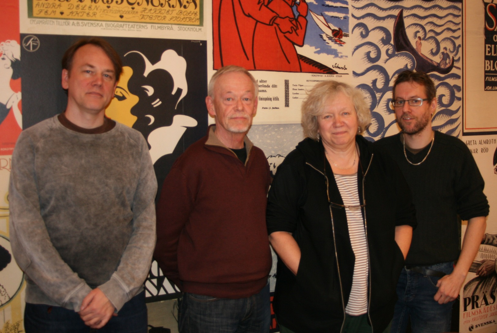 Staff of Swedish Film Database, at the library of the Swedish Film Institute (sfi.se)